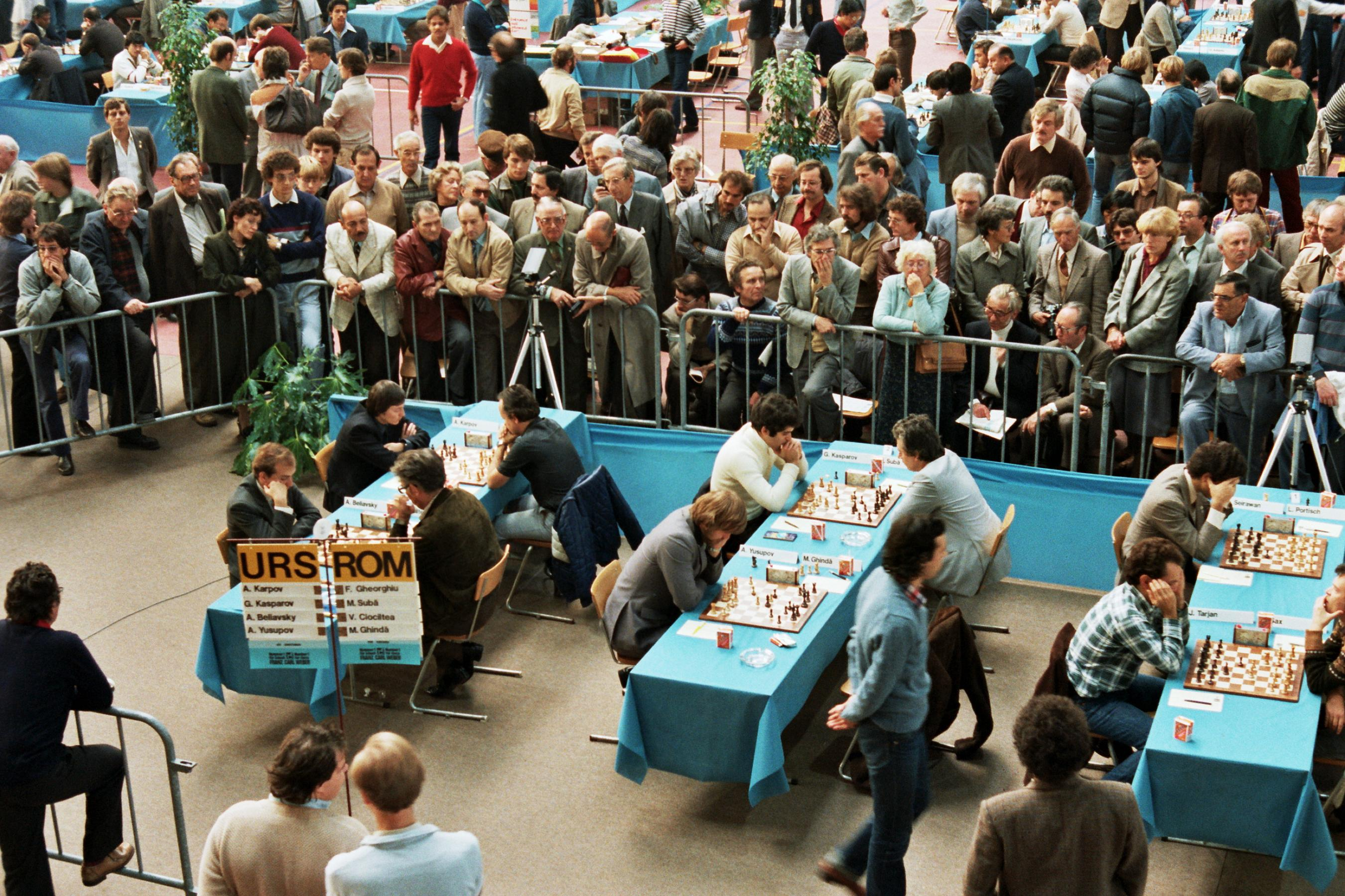 Tournament hall, URS - ROM and two games from USA - HUN, Chess Olympiad 1982 in Luzern, Photographer Gerhard Hund.